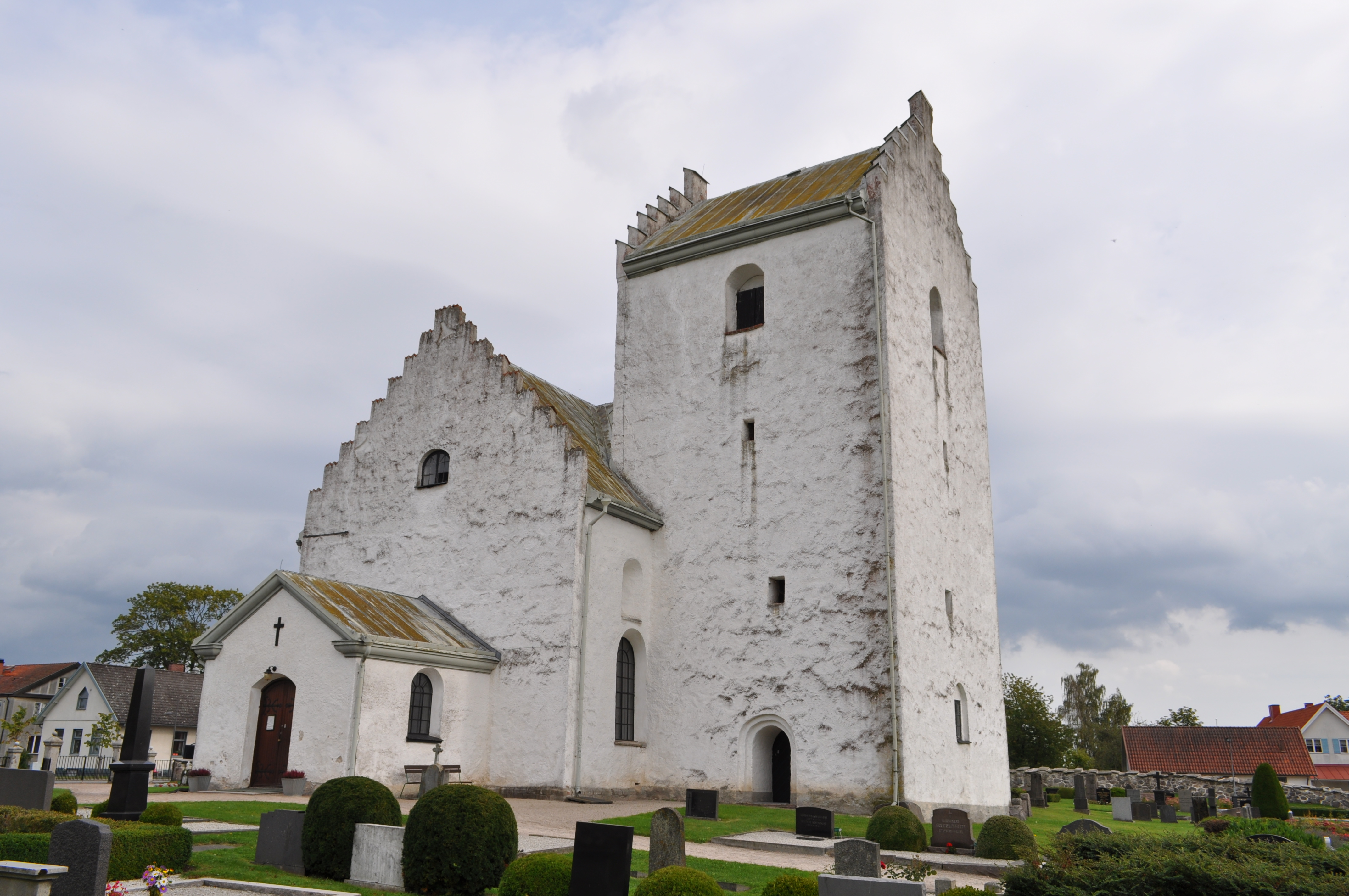 Knislinge church - kyrka